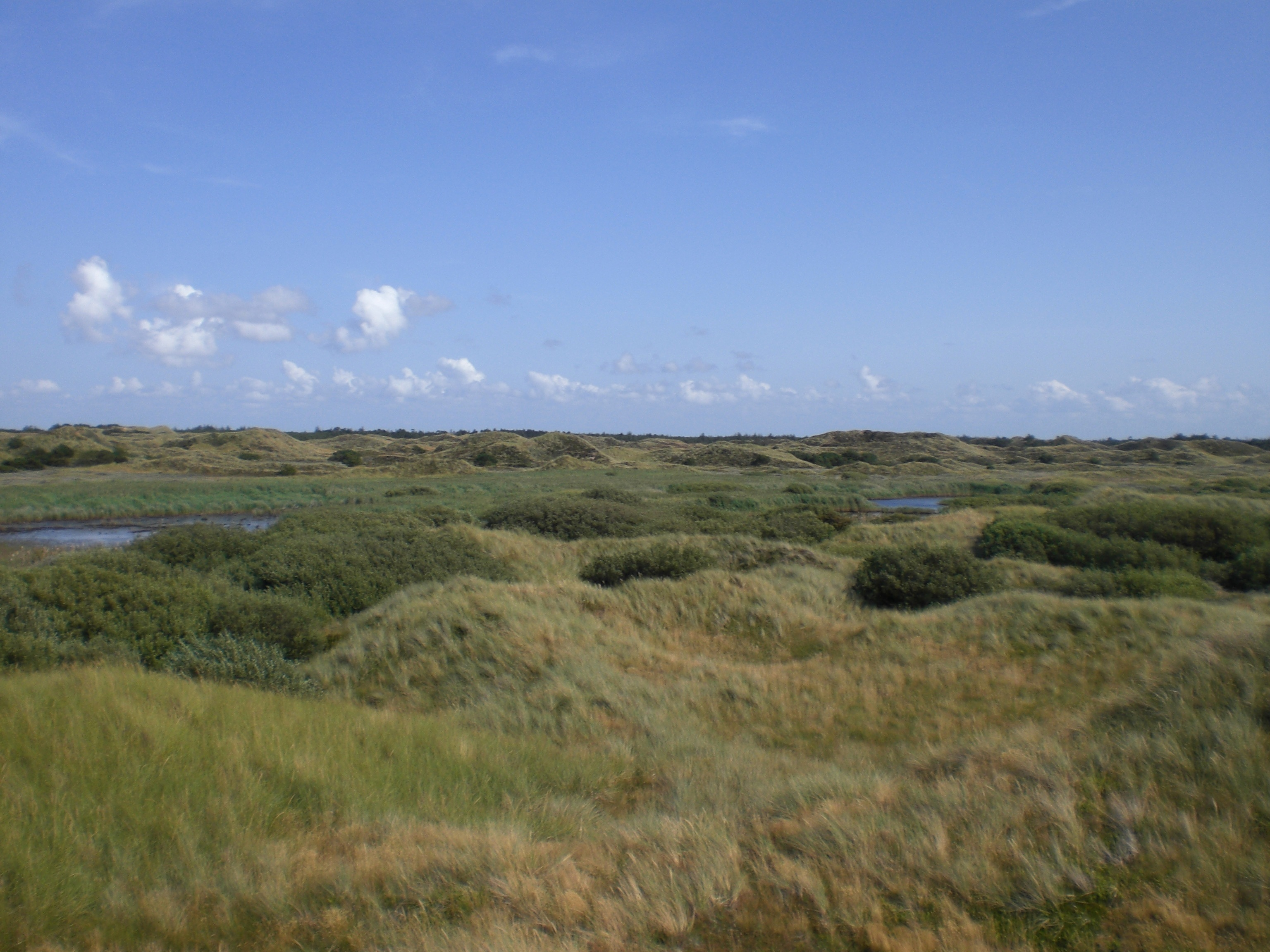 Dunes on Fanø Denmark